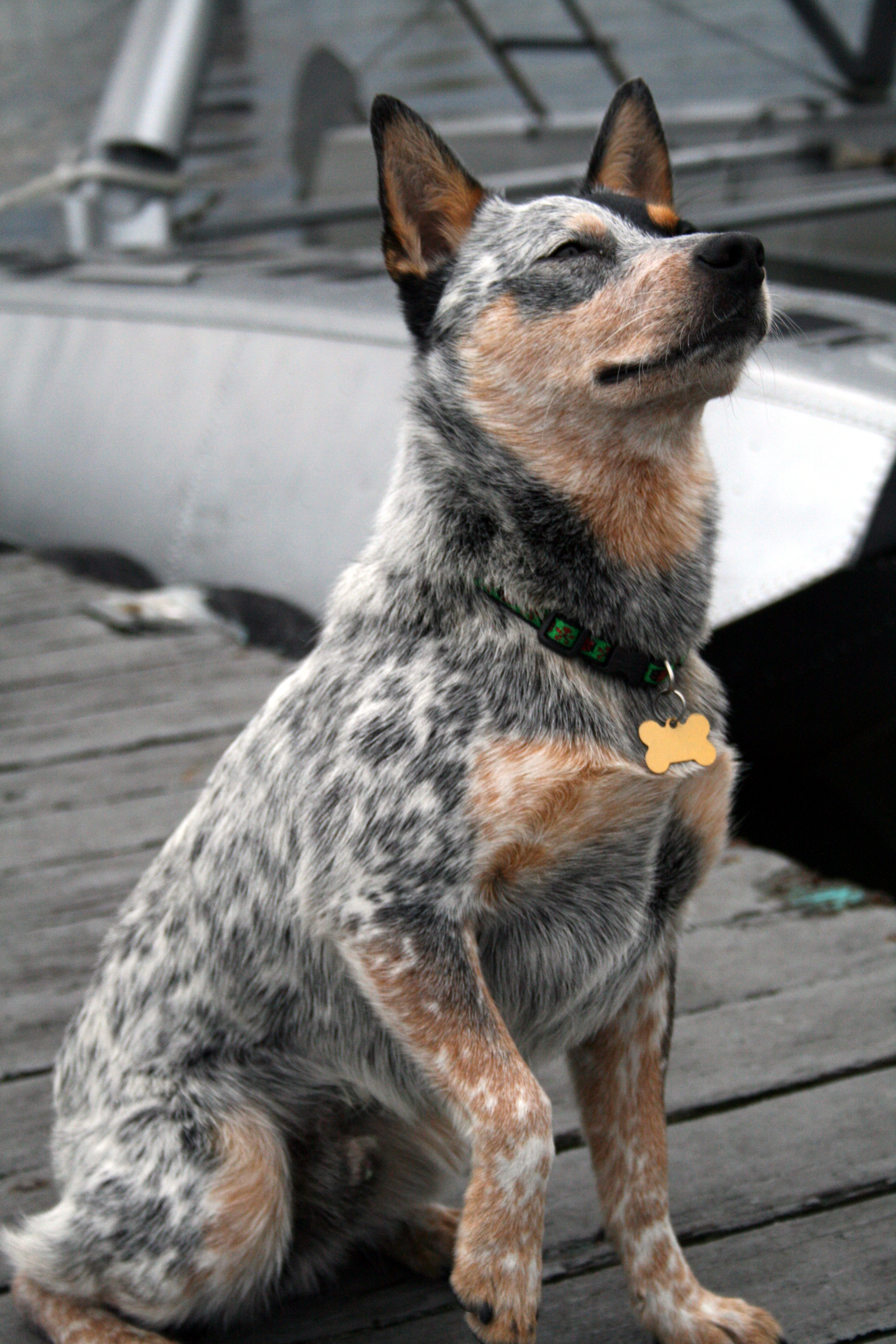 An Australian Cattle Dog (Blue Heeler).Blue Collective